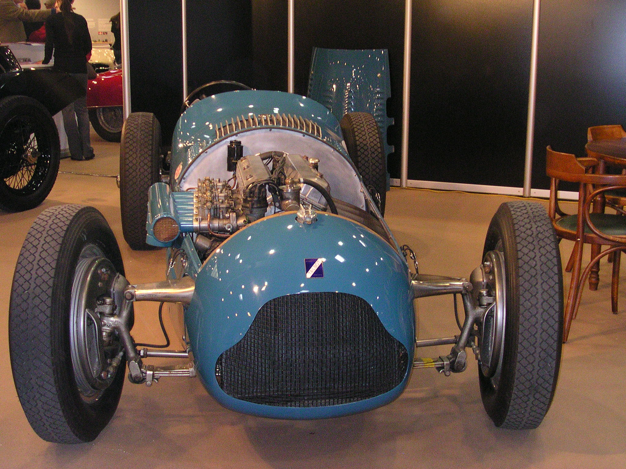 Essen Techno-Classica 2007, Talbot Lago T26 GS